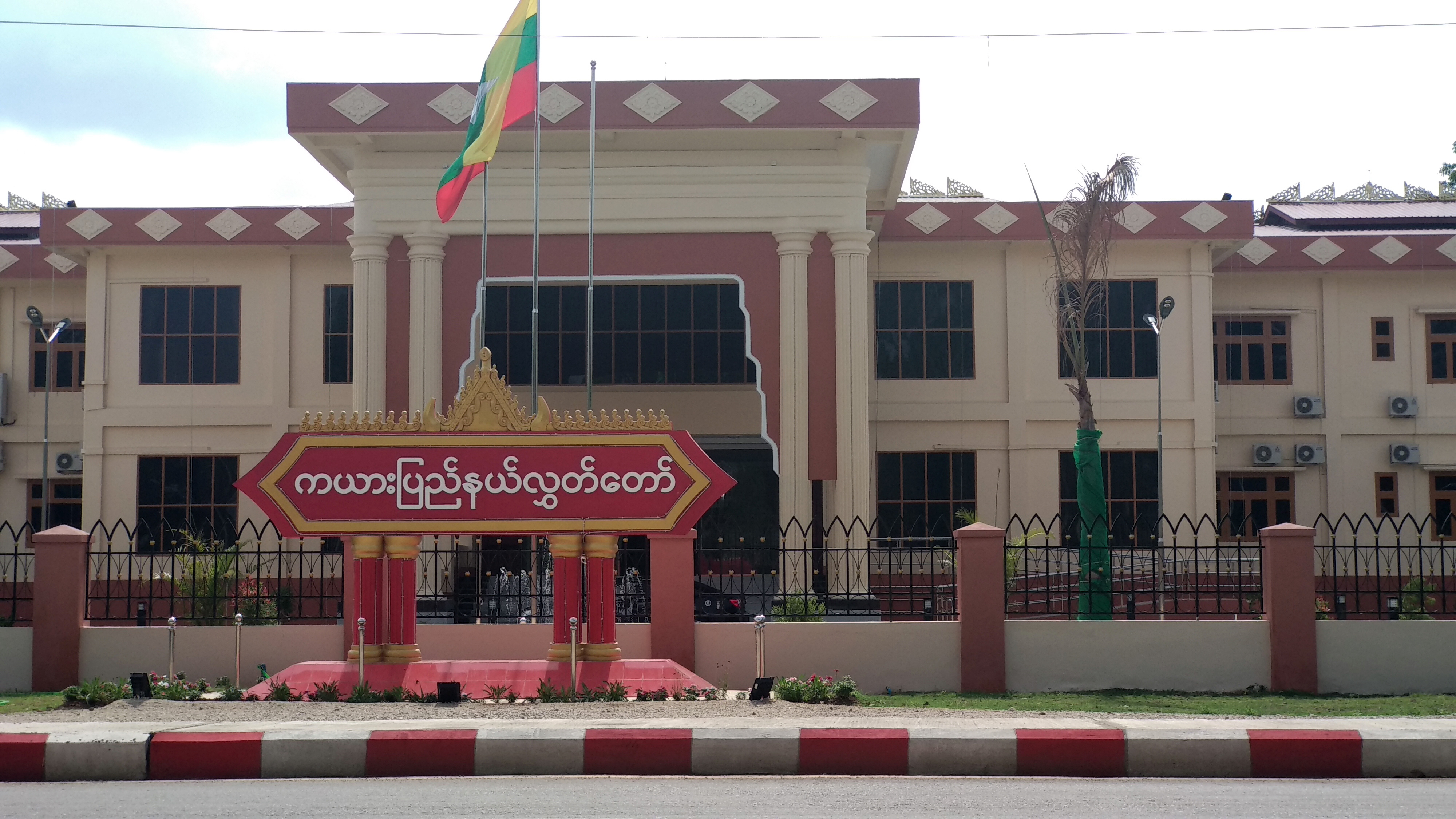 Kayah State Hluttaw Building မြန်မာဘာသာ: ကယားပြည်နယ် လွှတ်တော် အဆောက်အဦ